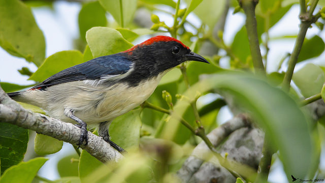 Male at Gosaba Island, Sundarban